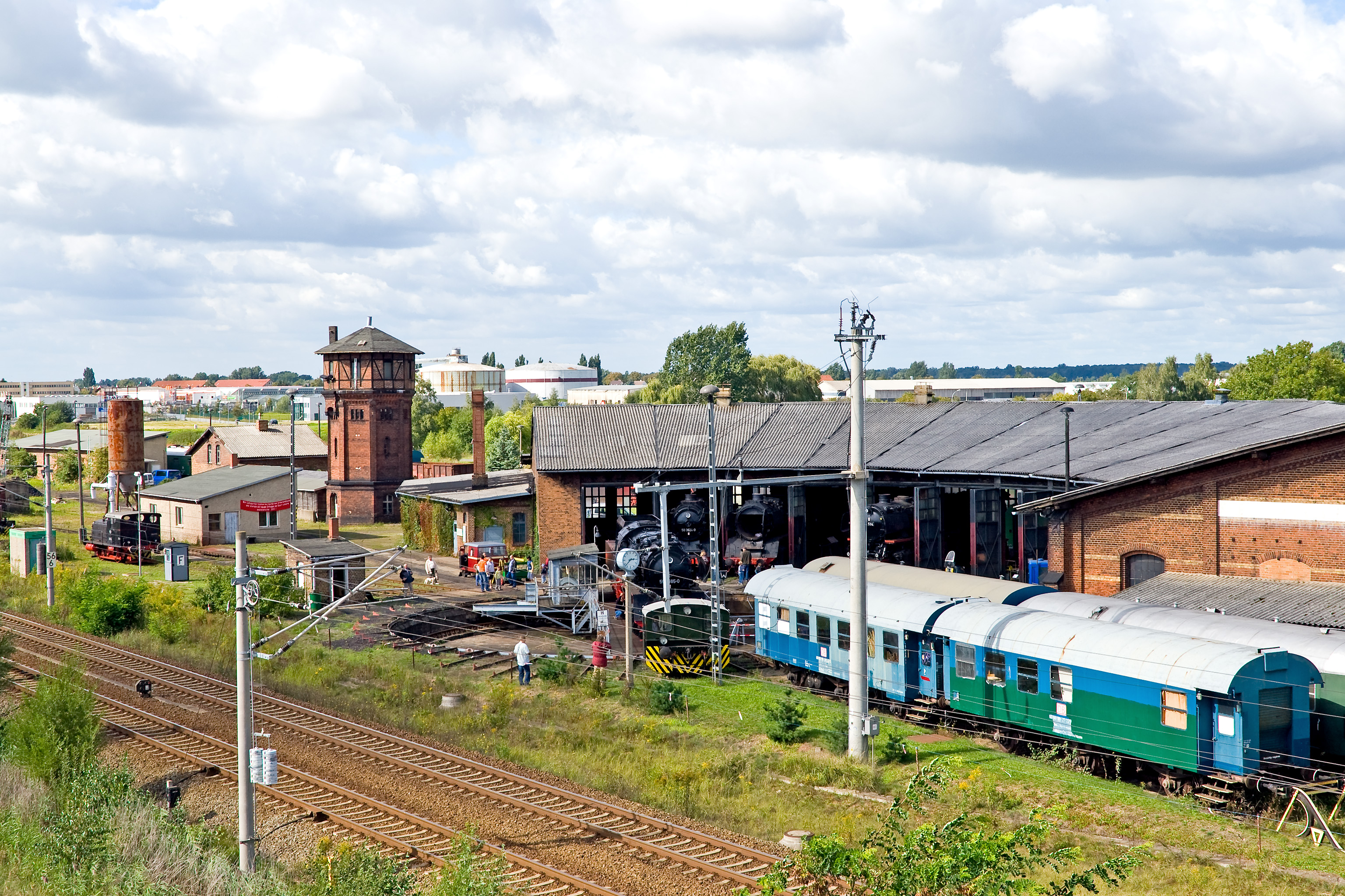 Roundhouse in Salzwedel, Saxony-Anhalt, Germany.